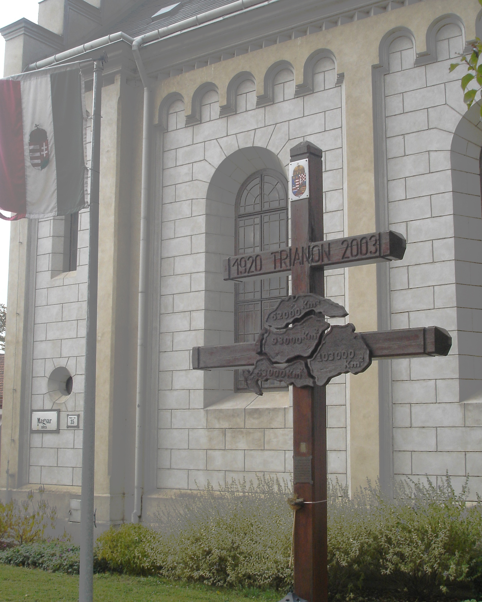 Monument to Trianon treatyAz Evangélikus templom mellett, azonosító 4559 (törzsszám 9499)